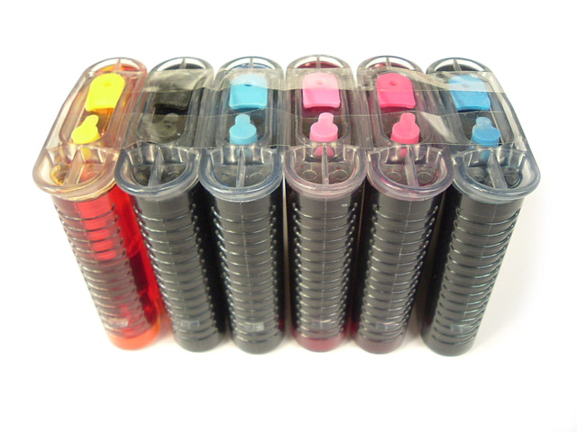 Reservoir tanks from a continuous ink supply system (CISS)